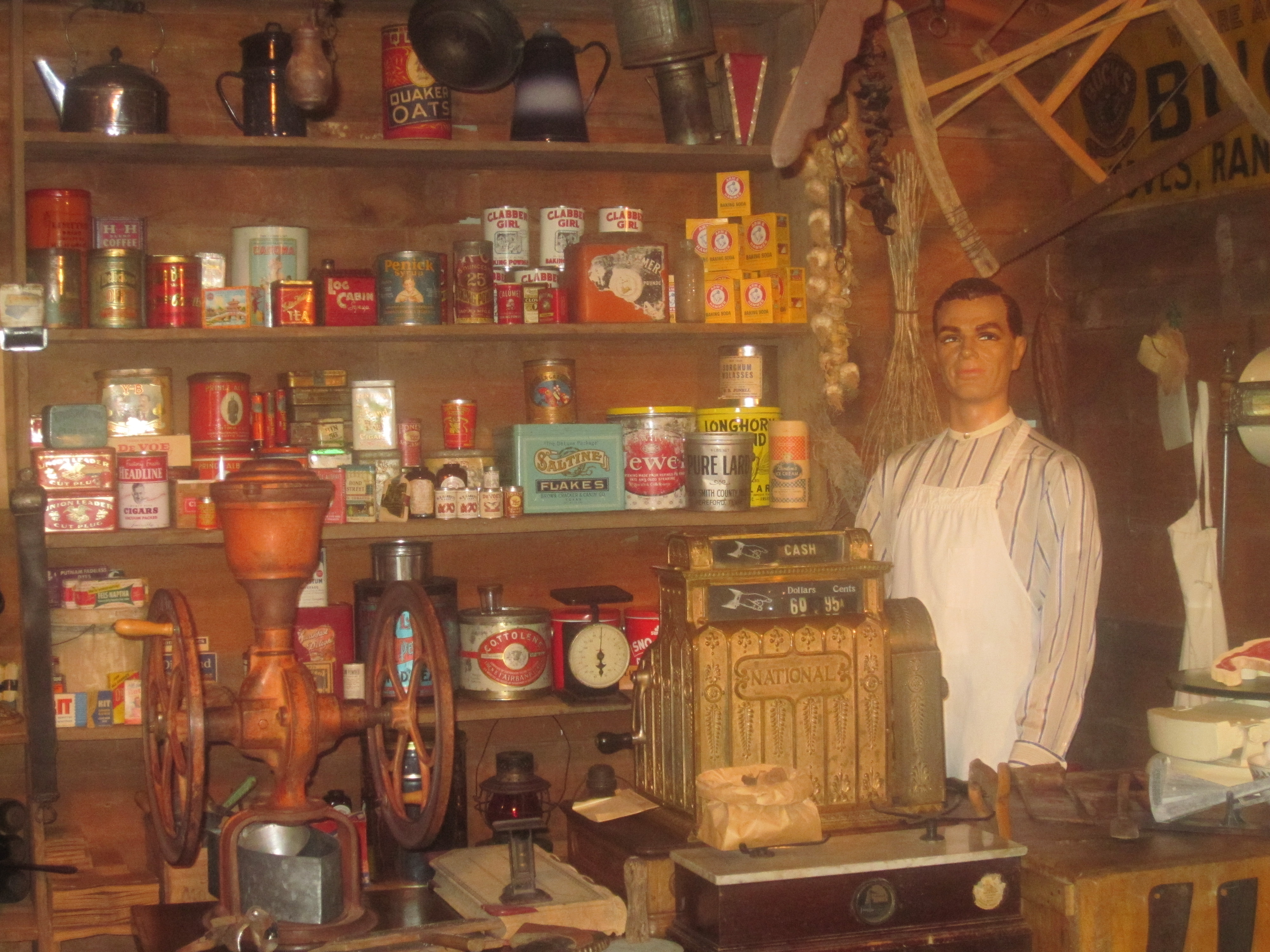 I took photo with Canon camera in Hereford, TX.